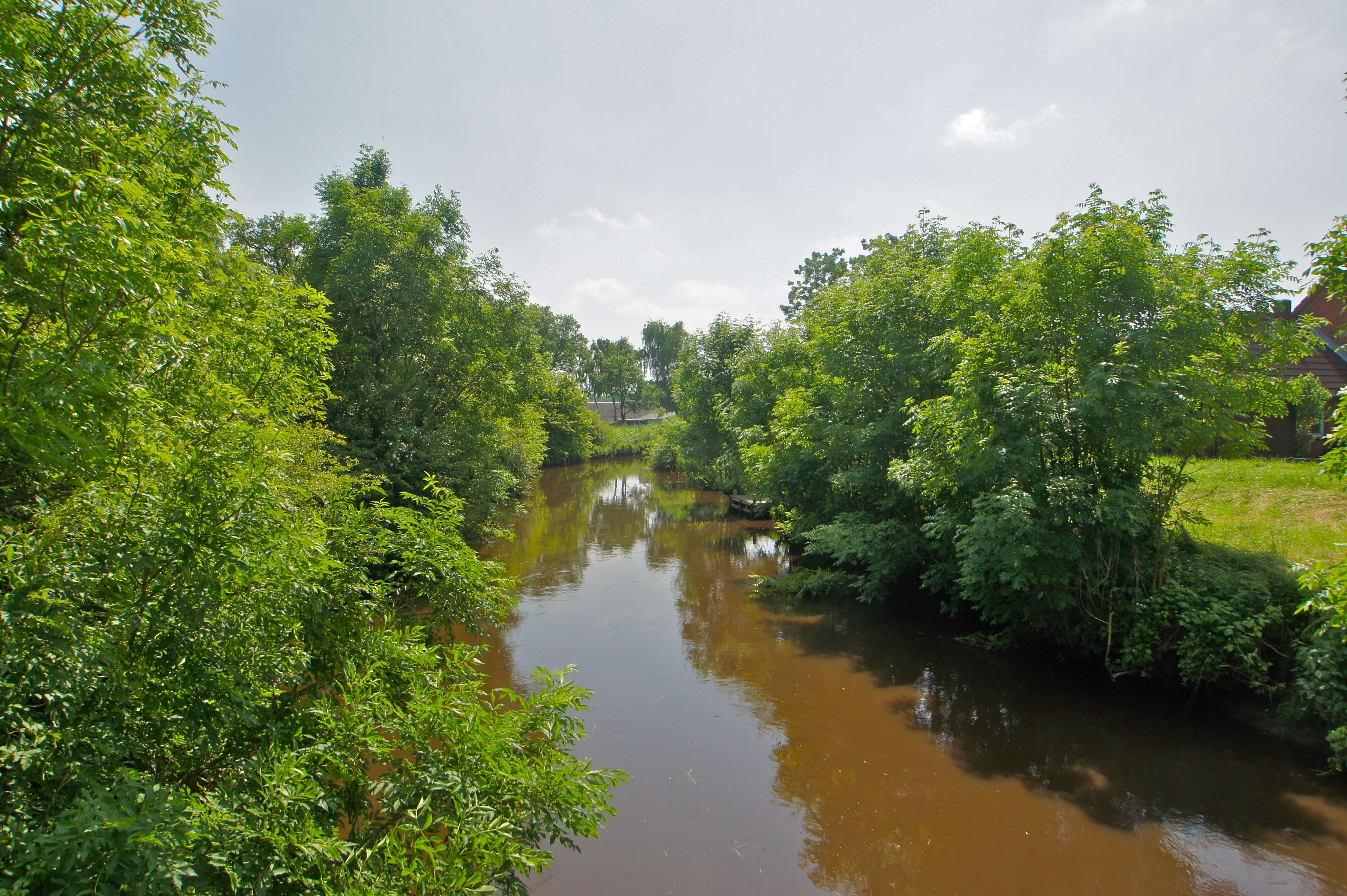 Bekdorf, Germany: Behind the damm